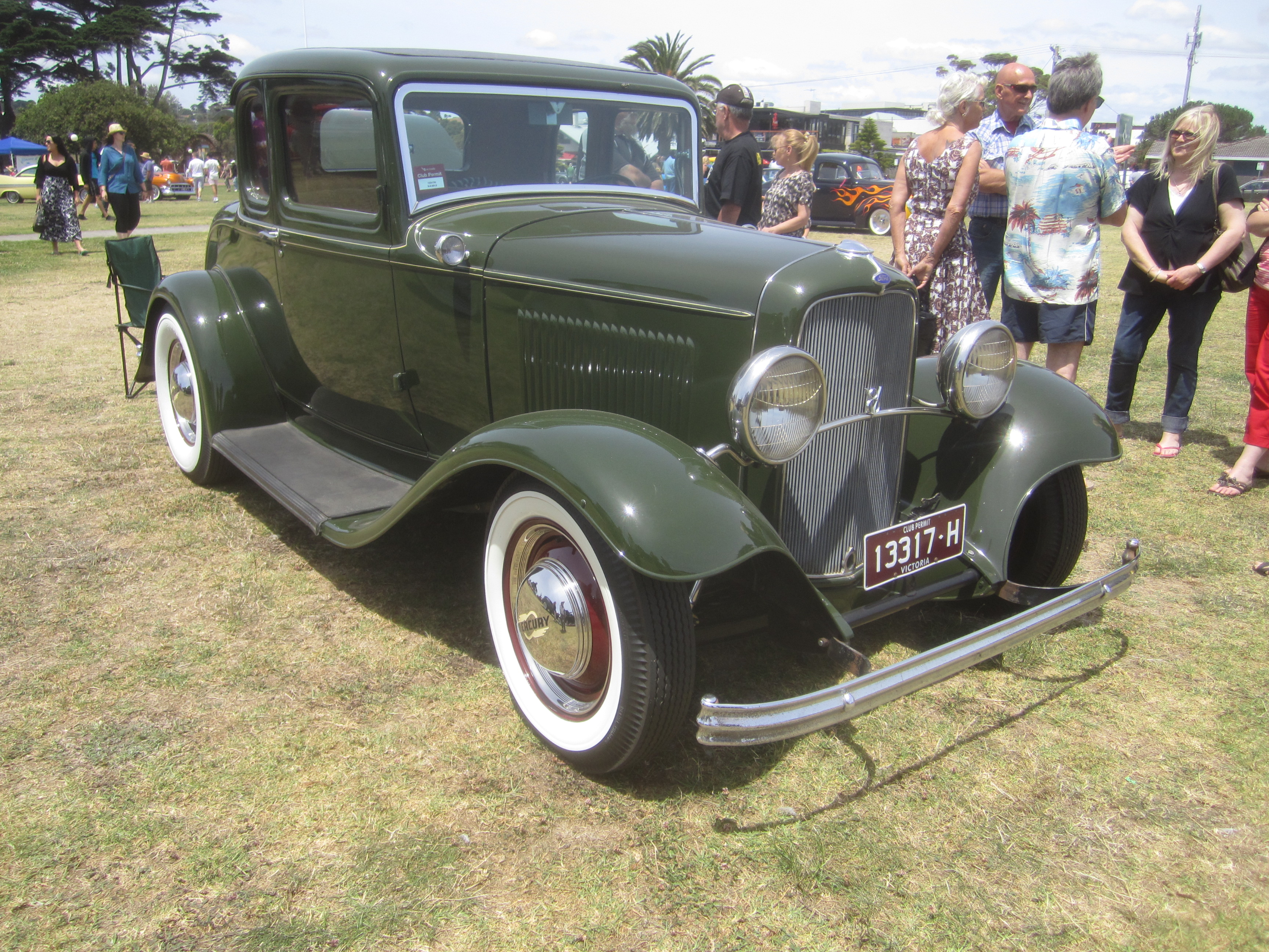 The 1932 Ford was available as the 201 cu in 4 cylinder Model B or the 221 cu in Flathead V8 Model 18. and again available in a wide variety of body styles. These days, the Roadster and Coupe are the most popular for building street rods making original cars quite rare